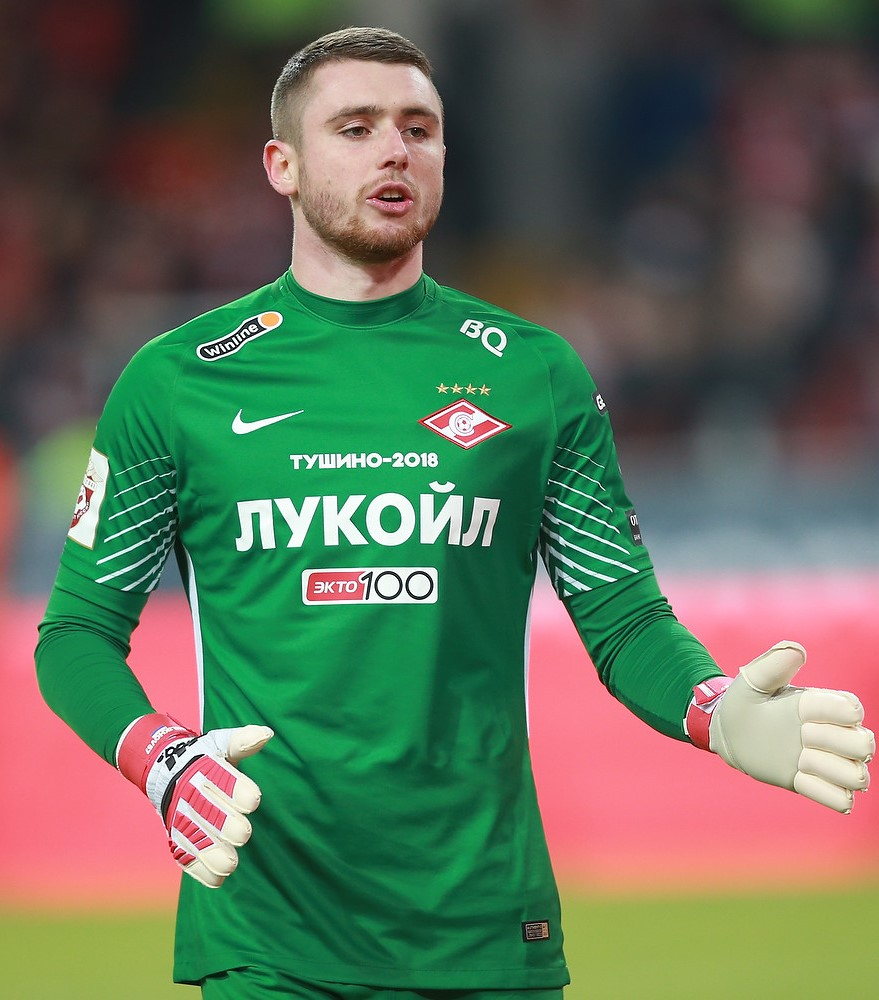 Aleksandr Aleksandrovich Selikhov